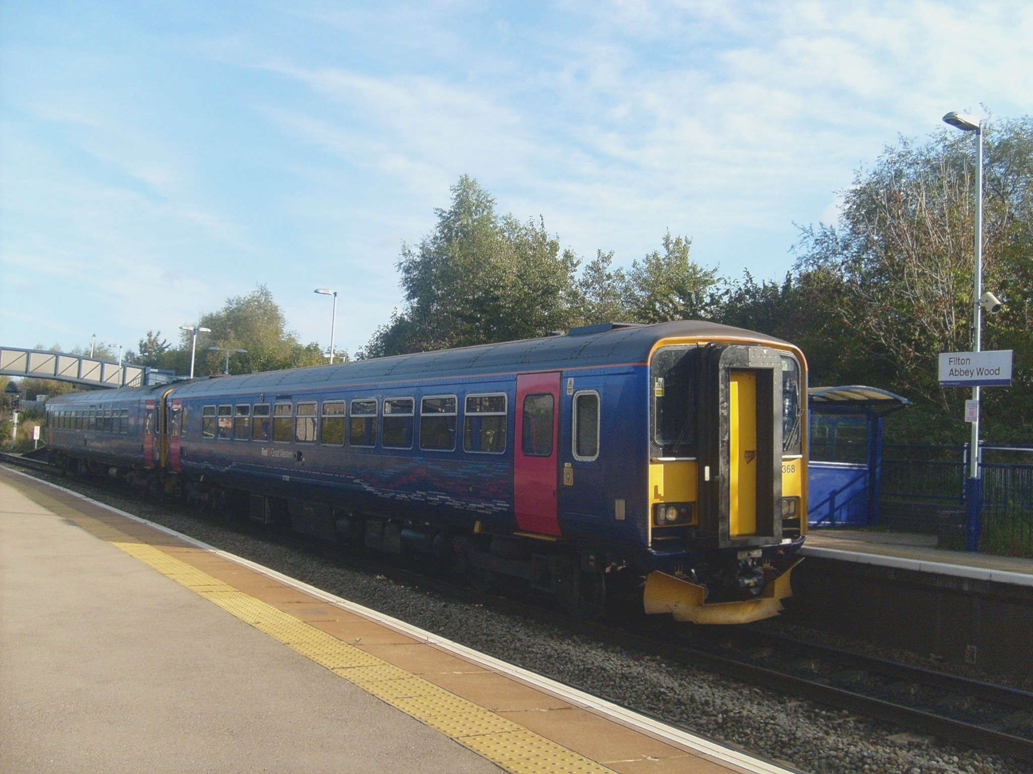 A pair of First Great Western Class 153 No. 153368 and No. 153305 at Filton Abbey Wood